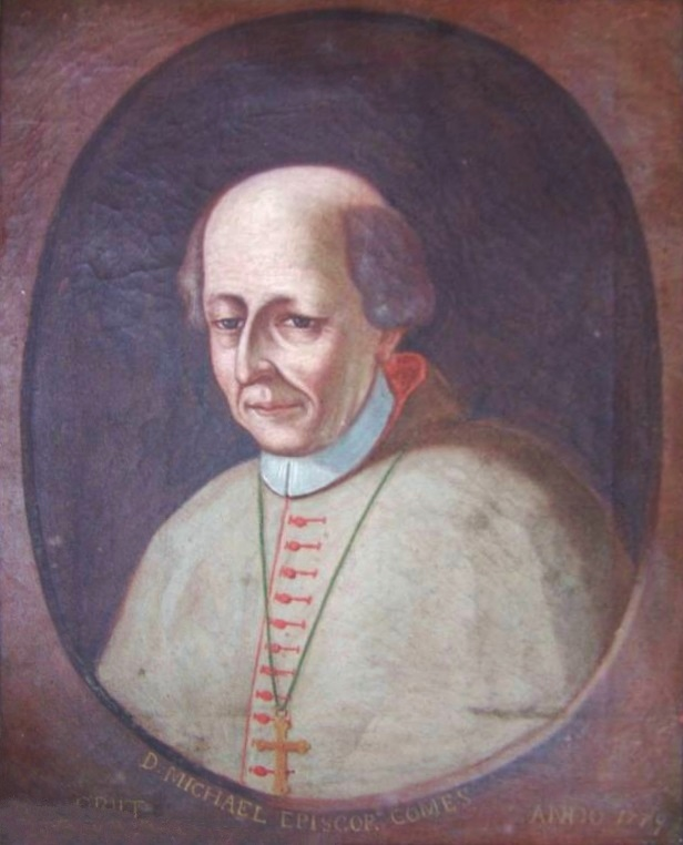 Portrait of Miguel da Anunciação, Bishop of Coimbra and Count of Arganil, 1779, by Pascoal Parente.